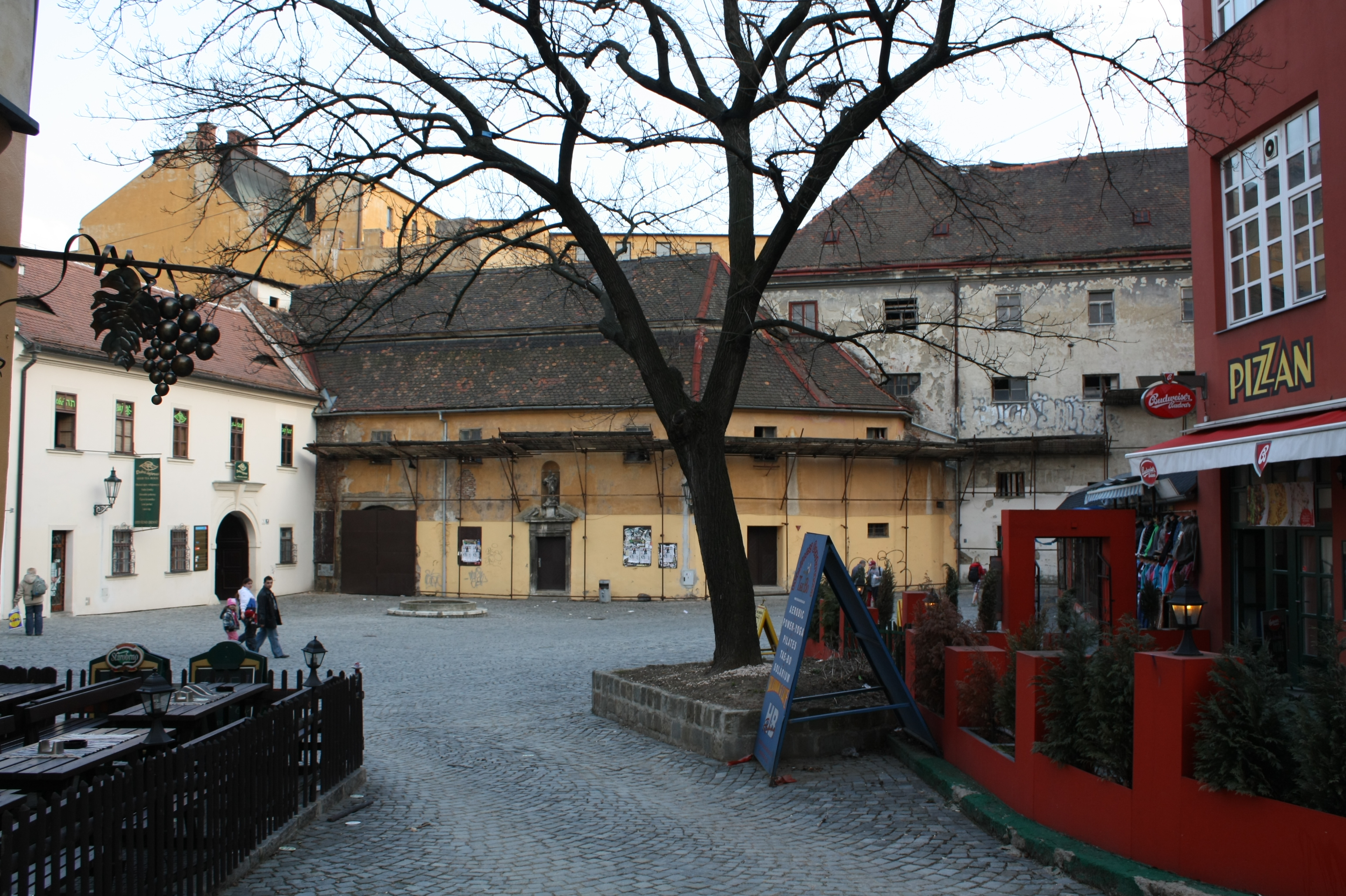 Františkánská street (so-called Roman square), Brno, Czech Republic